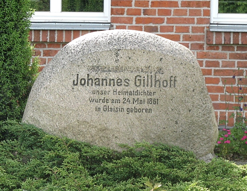 Memorial for Johannes Gillhoff in Glaisin, Ludwigslust, Germany